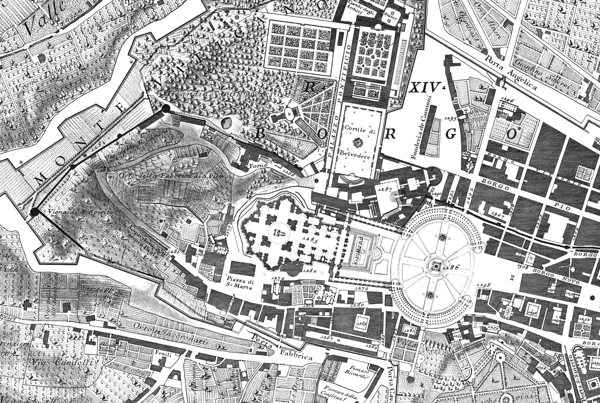 The New Plan of Rome by Giambattista Nolli part 1/12